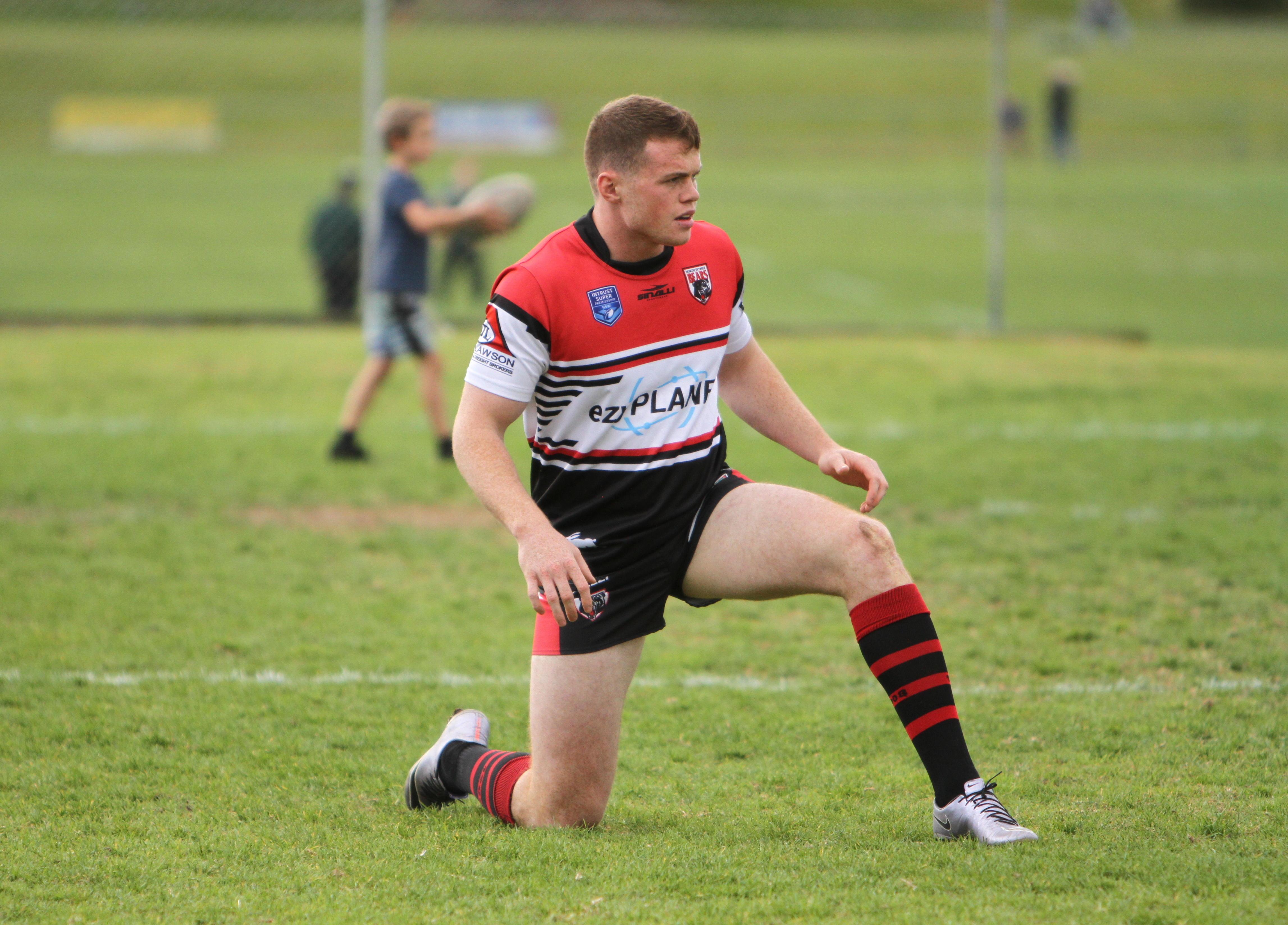 Joe Burgess